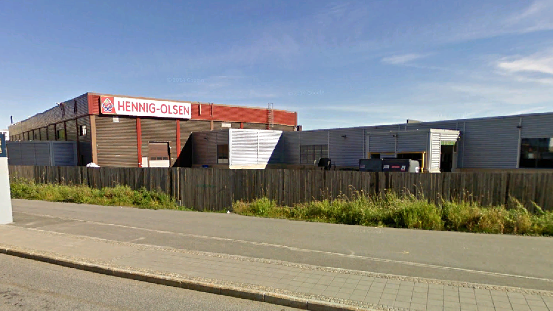 Hennig-Olsen Icecream factory in Kristiansand.